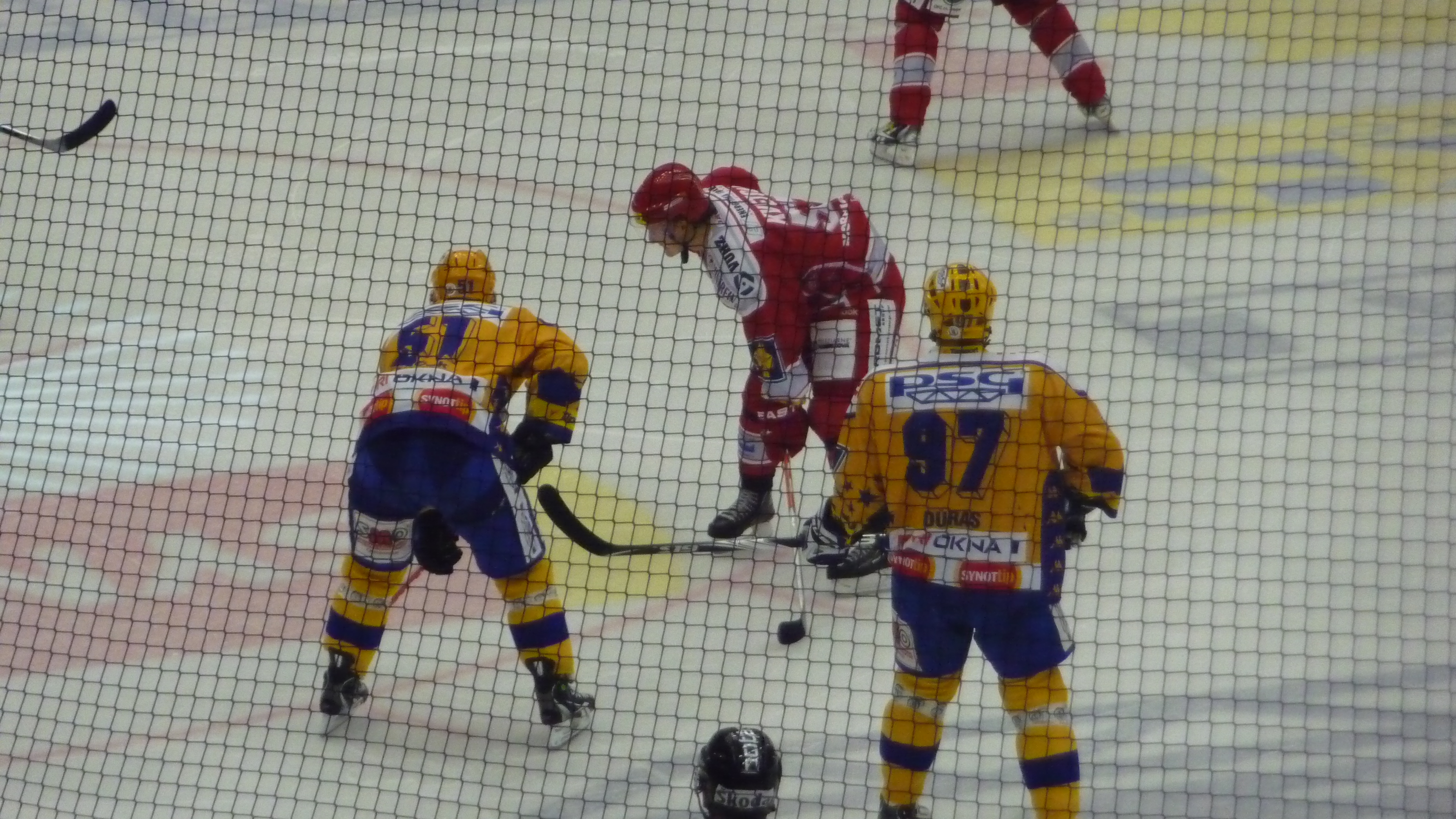 PSG Zlín v HC Oceláři Třinec -10 -5 -3 -2 ◄ ► +2 +3 +5 +10